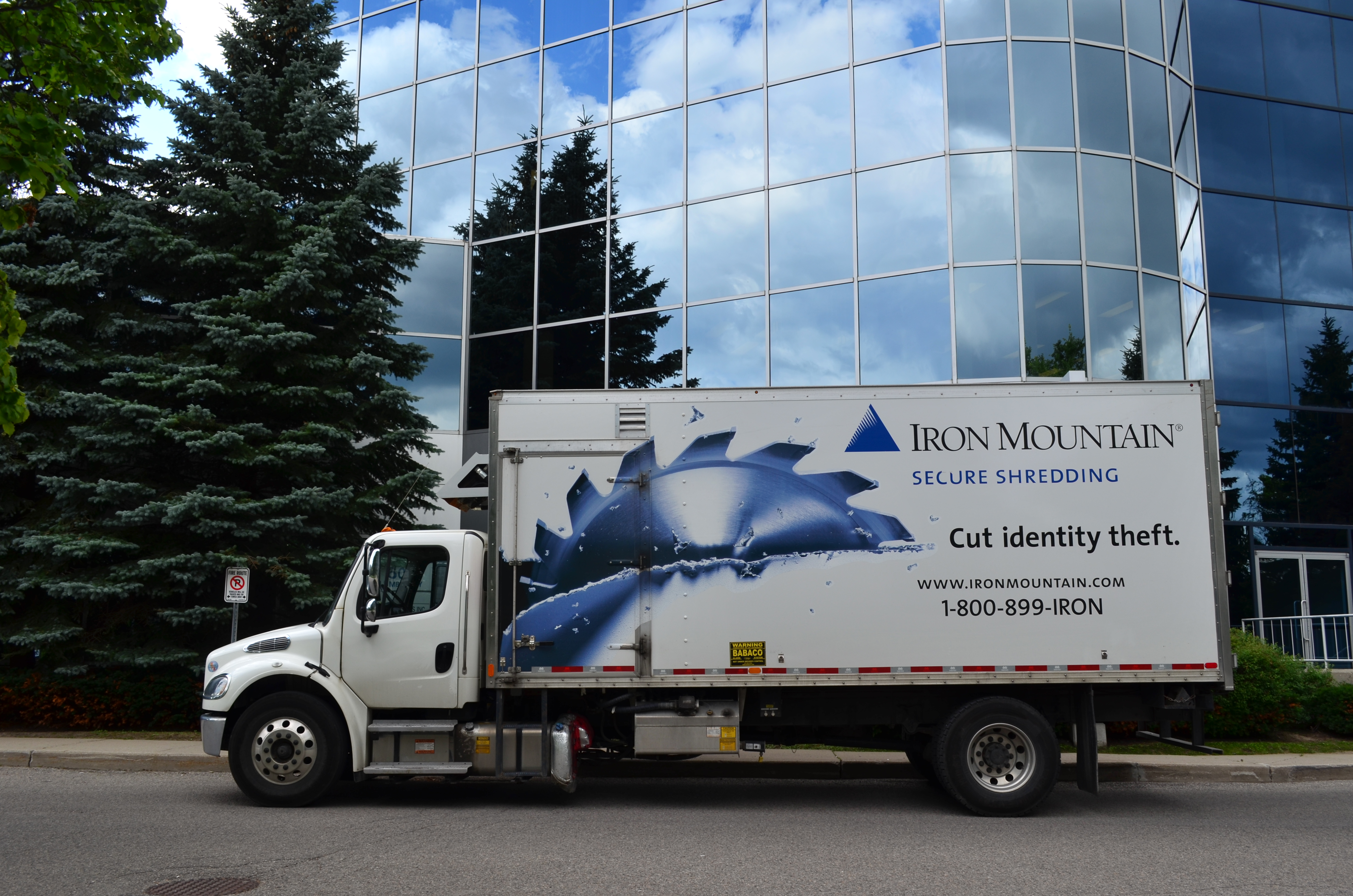 Iron Mountain